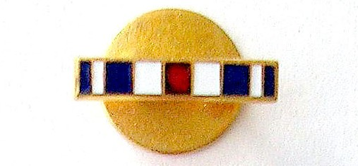 The component of Silver Star: the lapel button